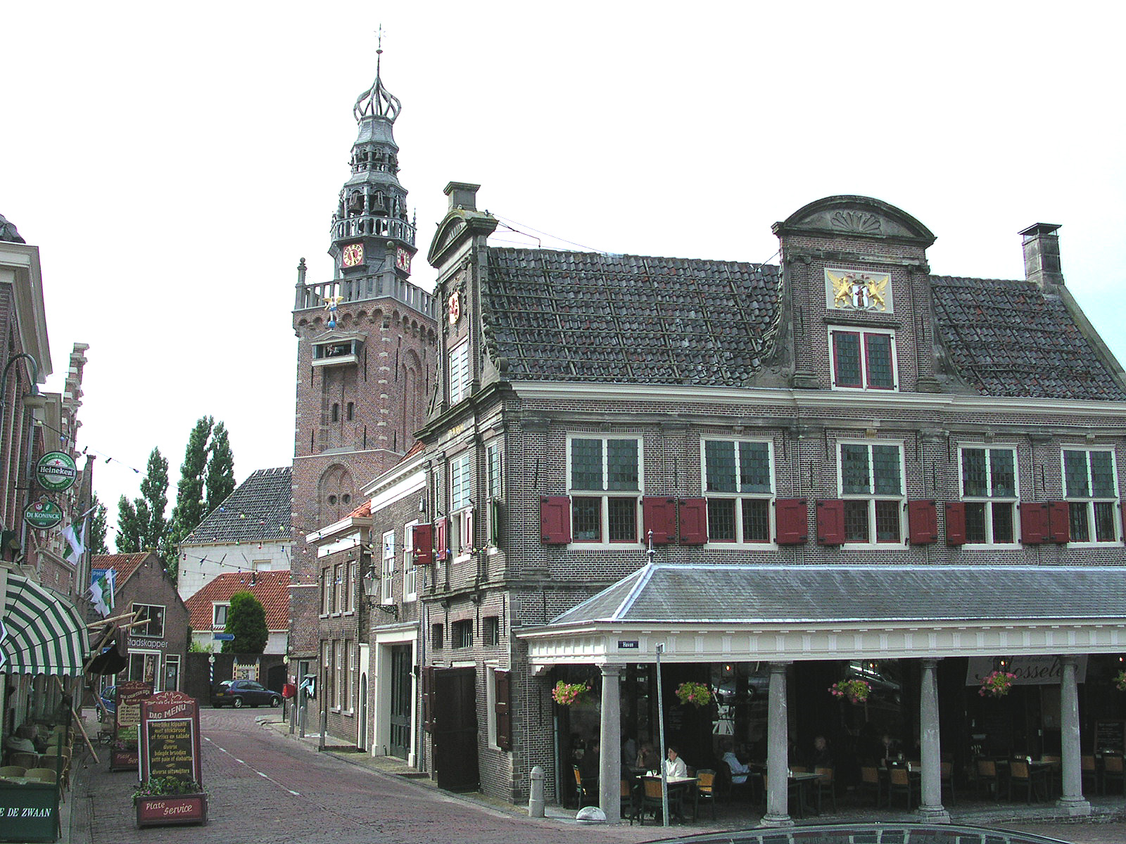 Monnickendam in North Holland Author Romary